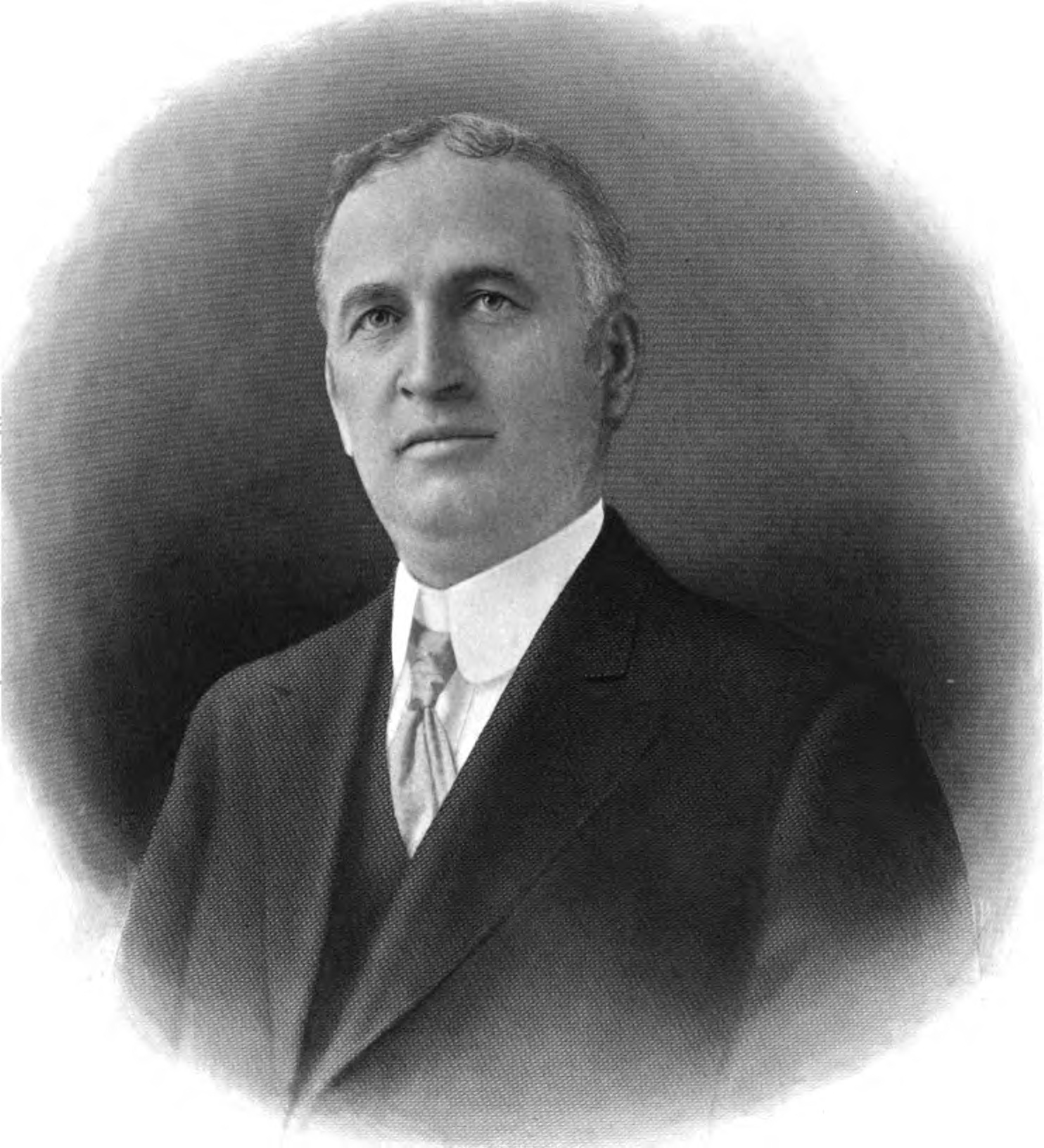 William A. Ashbrook was a congressman from Ohio. Here seen in an engraving from a 1913 book.